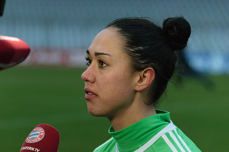 Manuela Zinsberger giving interview to FCB-TV (2017)